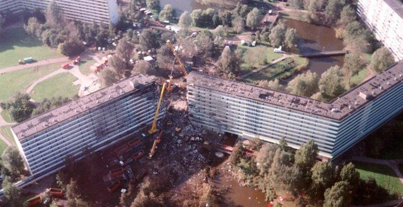 Version without link of File:Bijlmerrampwiers2.jpg. Original uploaded with consent from creator and owner Jos Wiersema. website